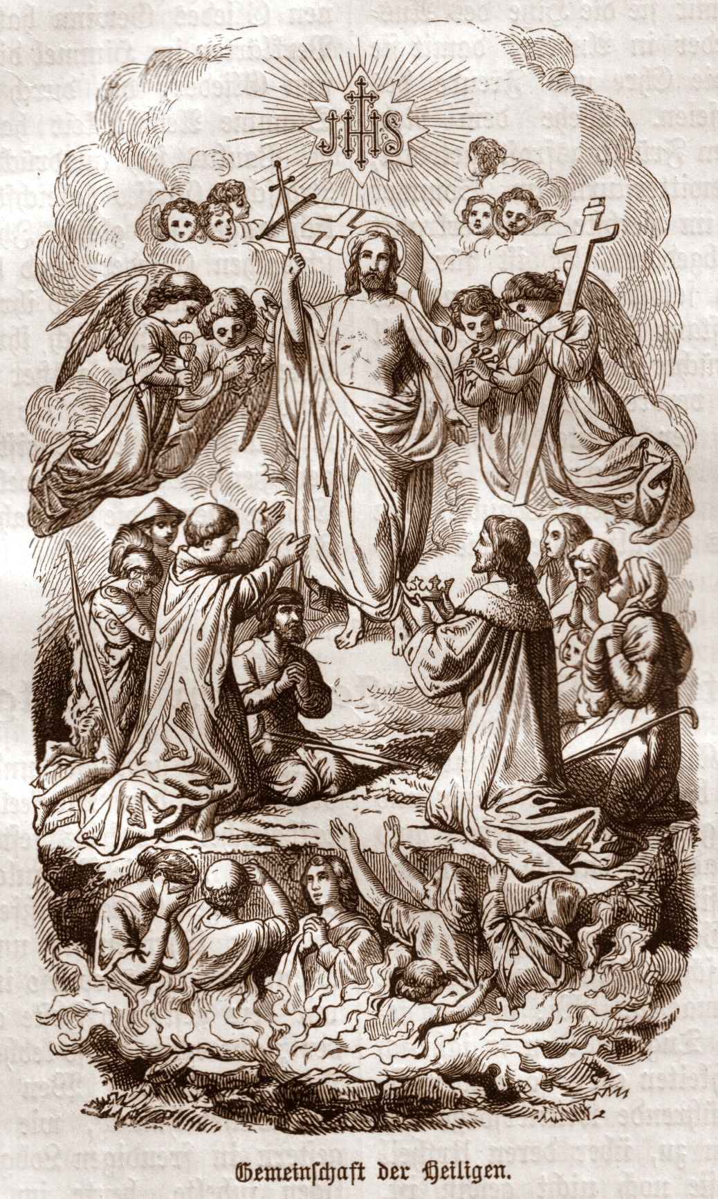 Picture: Community of Saints with Resurged Jesus